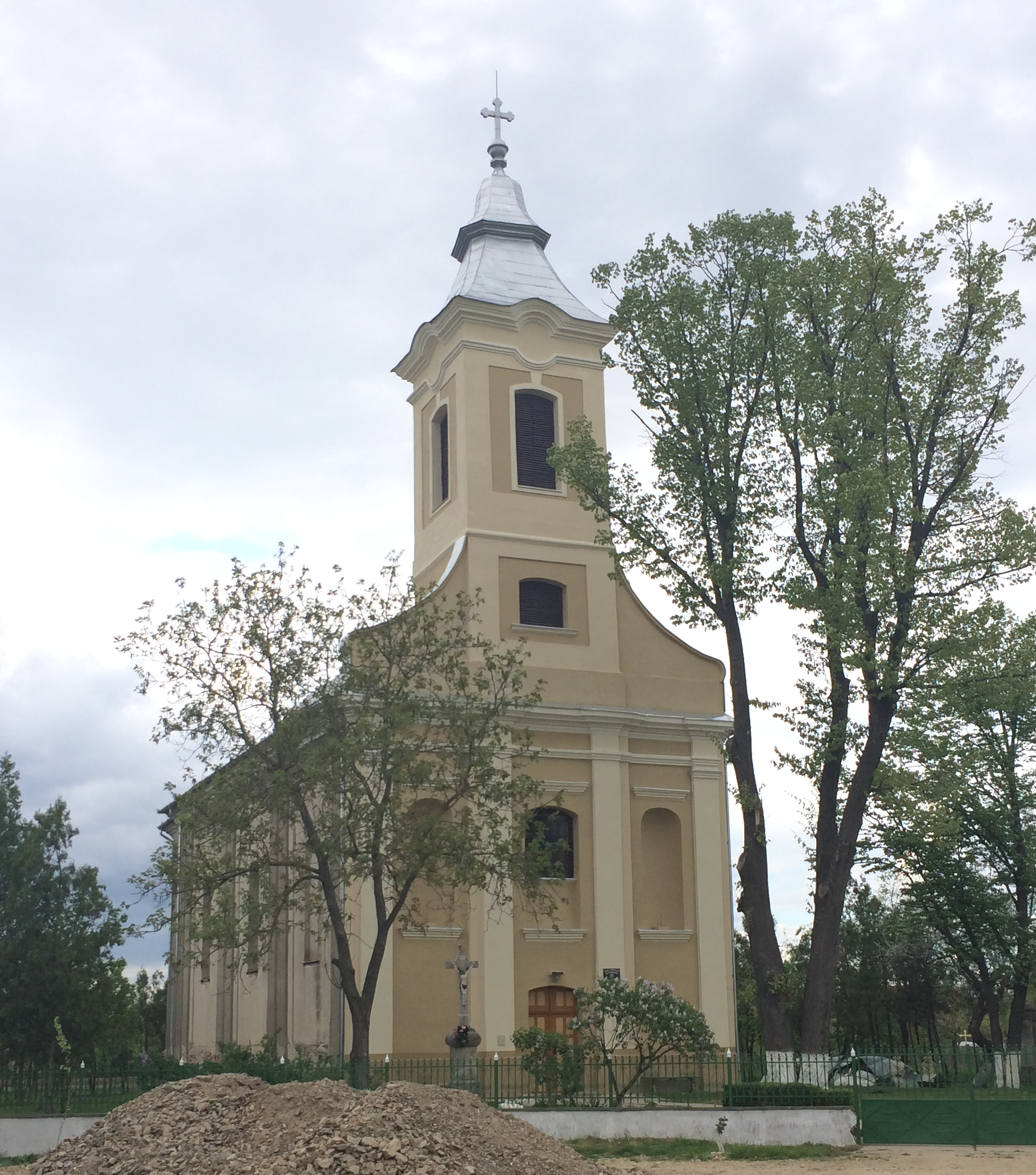 "Holy Trinity" Roman-Catholic Church, Adoni, Bihor county, RomaniaRomână: Biserica Romano-Catolică "Sf. Treime", Adoni, jud. Bihor